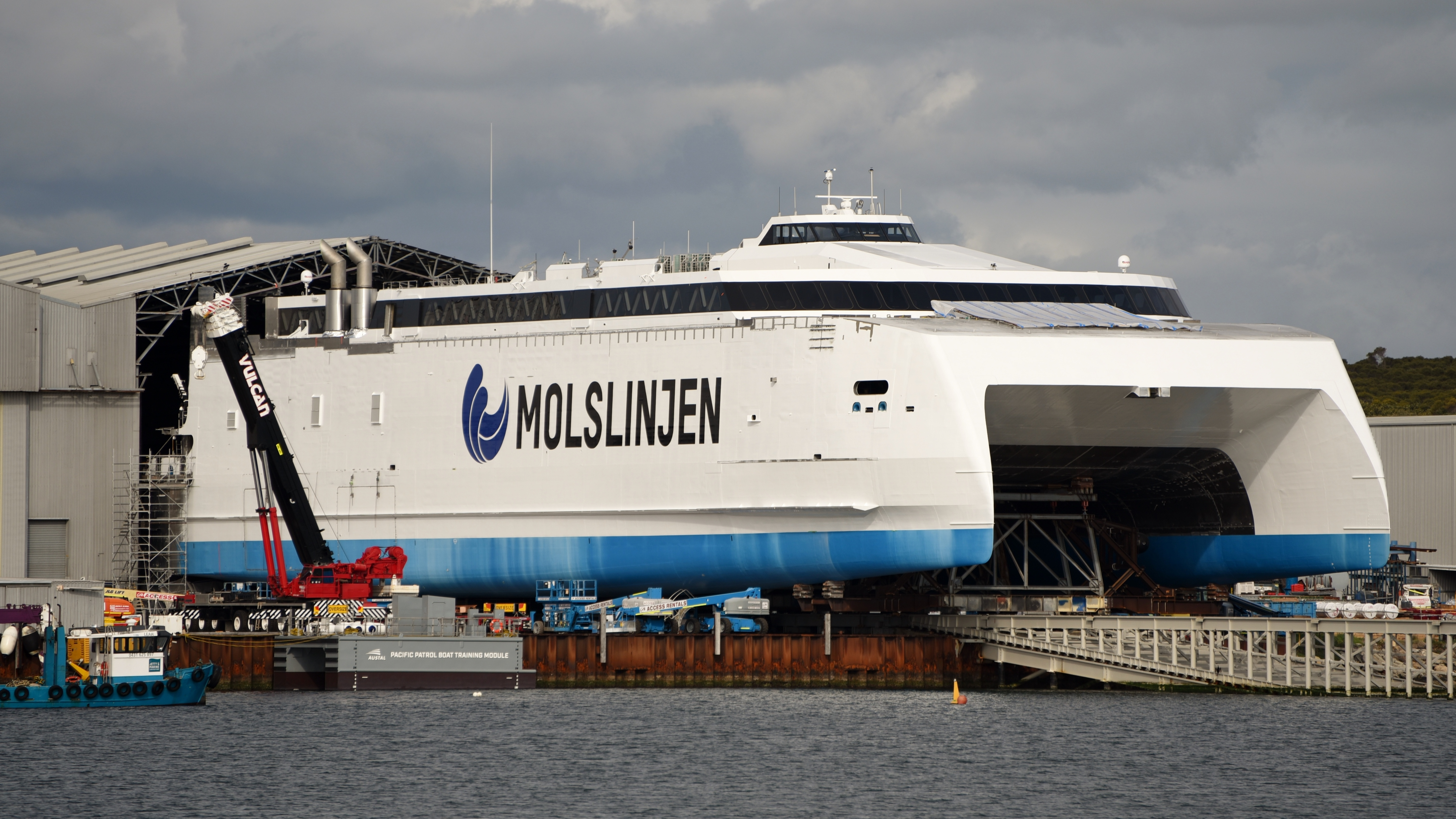 View of the rolled-out but not quite completed catamaran ferry HSC Express 4, at the Austal shipyard in Henderson, Western Australia